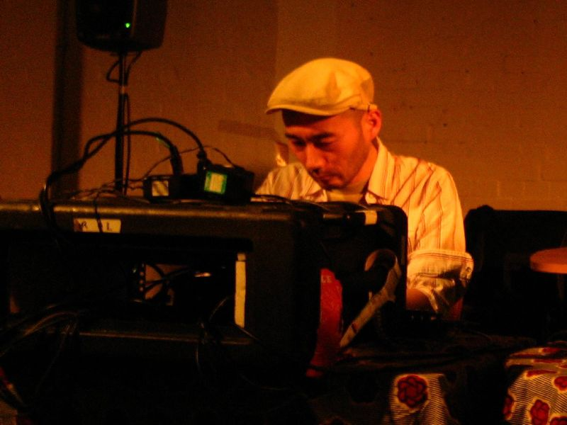 Toshimaru Nakamura (performing with John Butcher) at First Last LMC festival, Cafe Oto, London, 30/5/08.